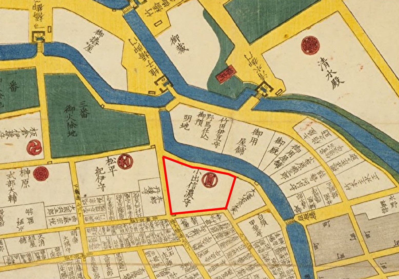 Residence of Koide clan at Edo